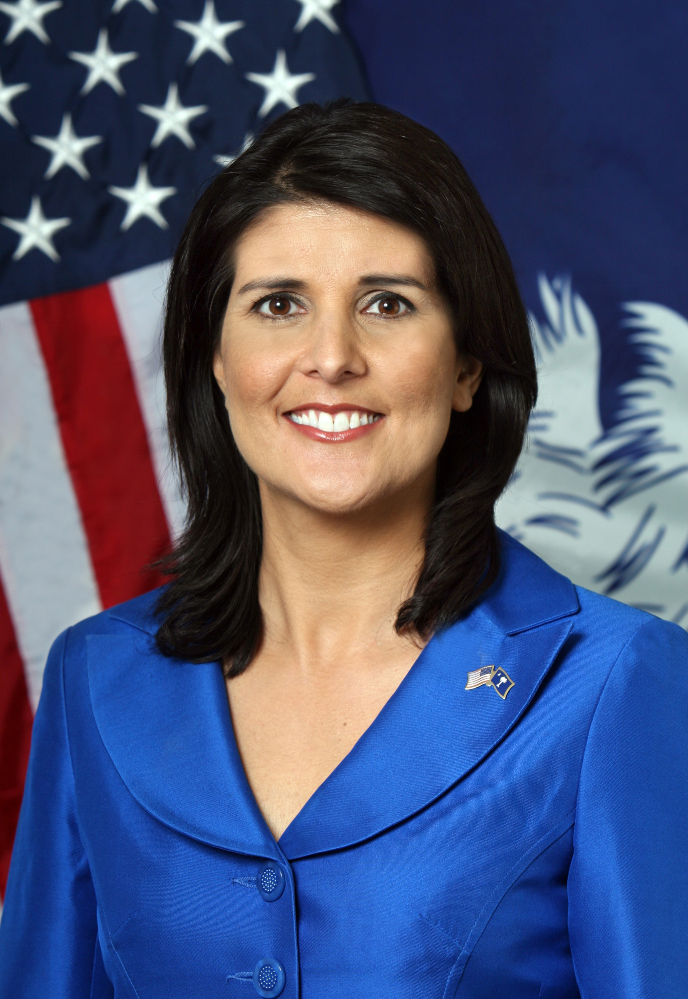 Gov. Nikki Haley official portrait.